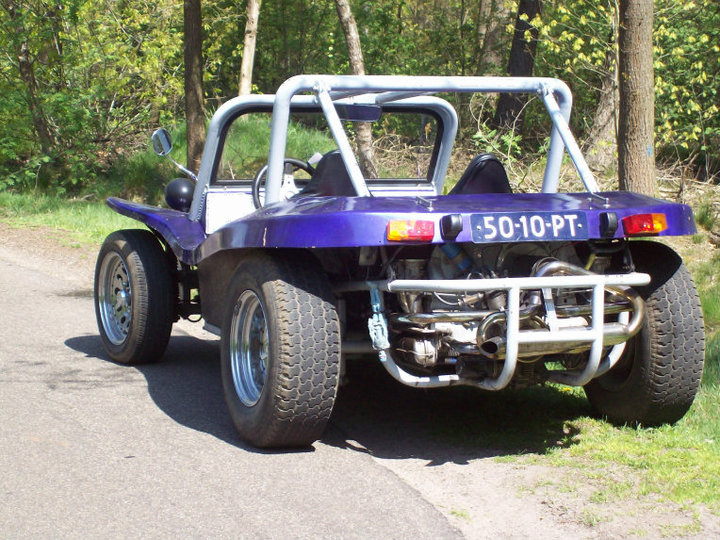 bermuda buggy